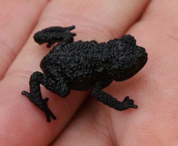 Anomaloglossus roraima on a hand. Taken in the top of the Roraima Tepuy